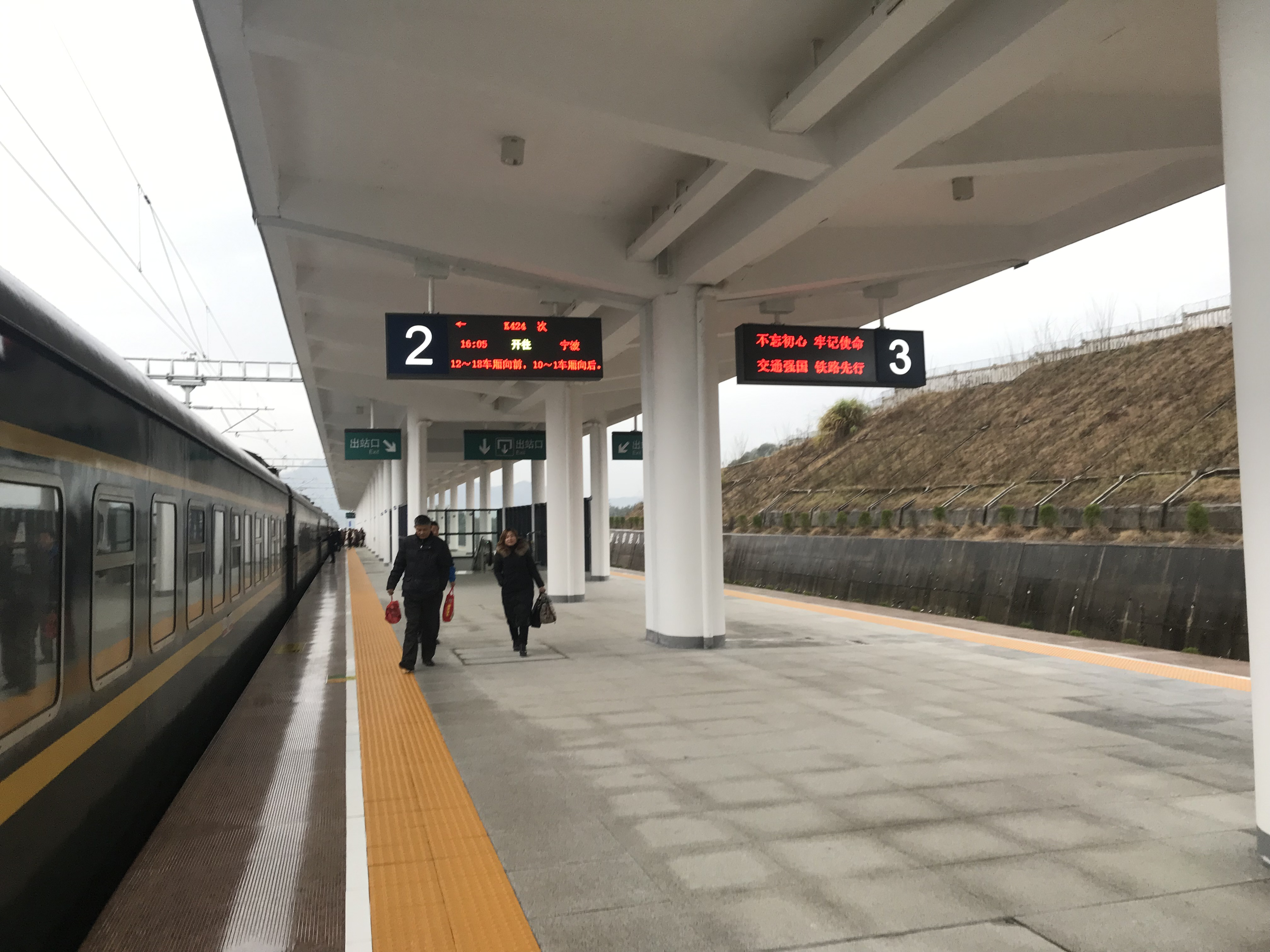 201901 Platform 2,3 of Dexingdong Station